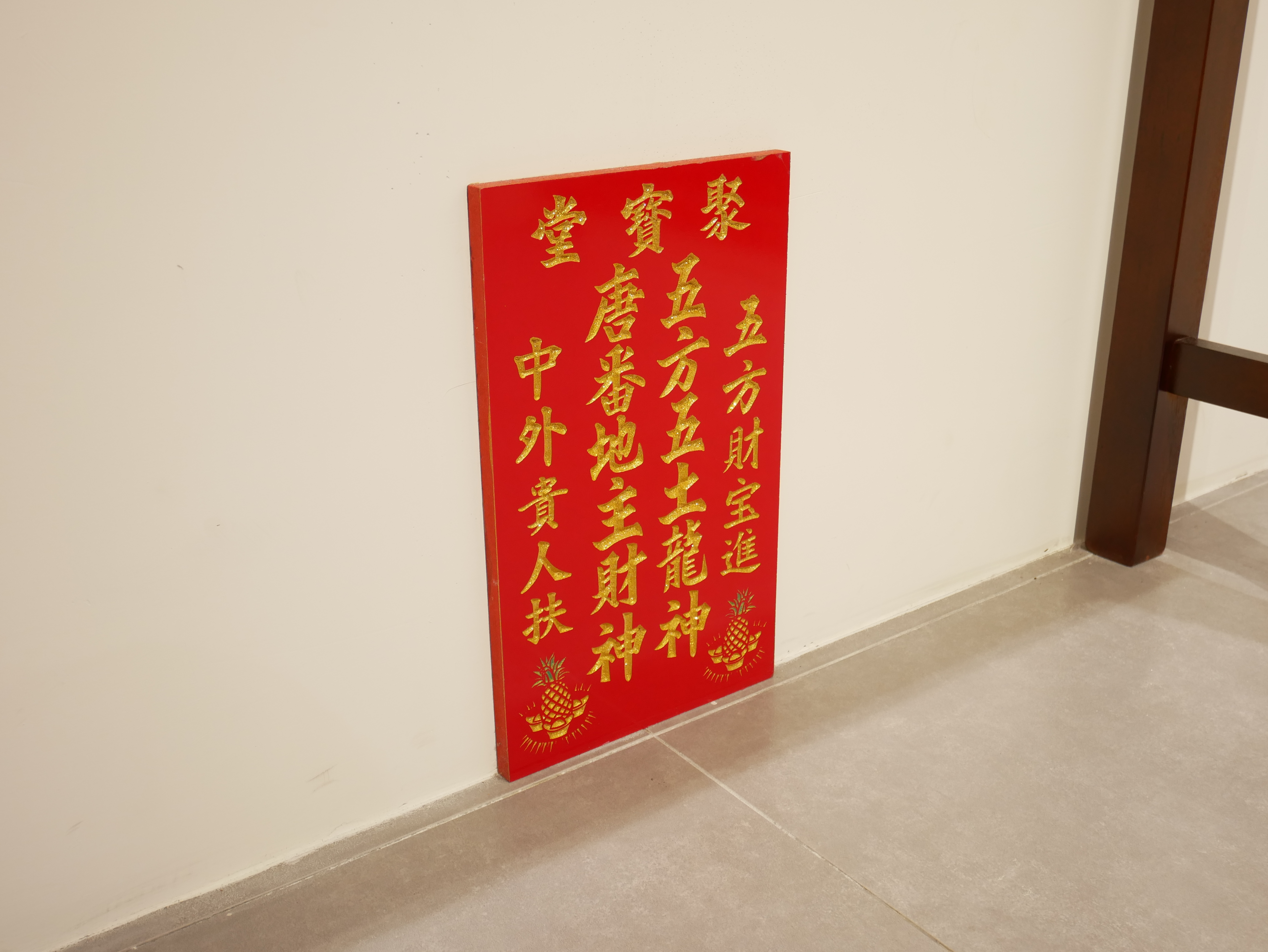 東馬華人地基主，桃園市桃園區三民里